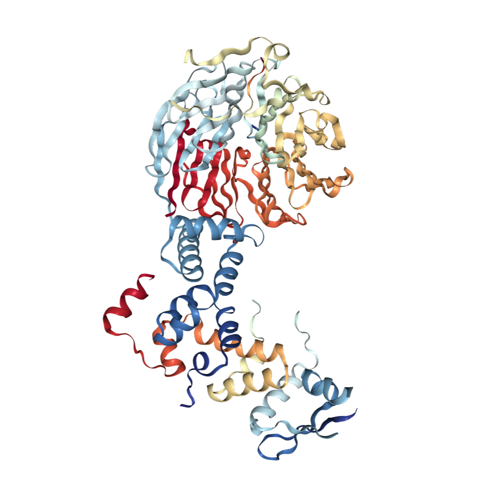 Sic1 Protein in Chain View, created by MacPyMOL